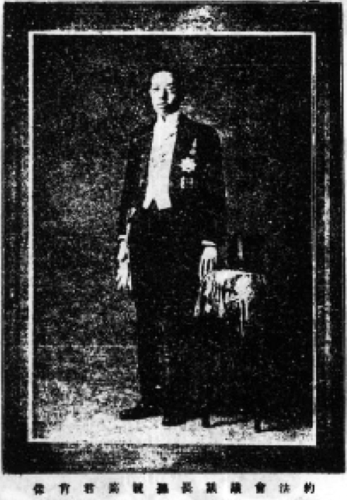 Sun Yuyun